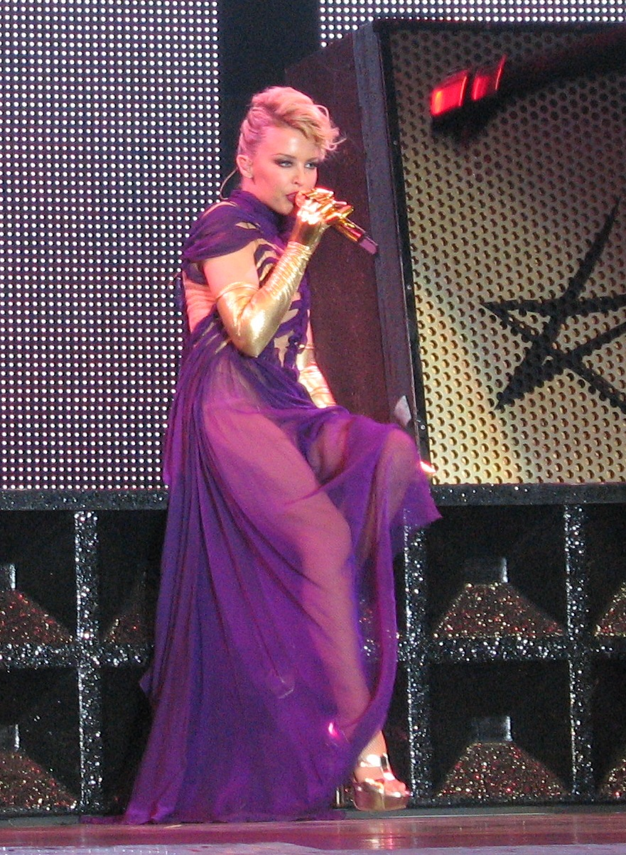 Kylie Minogue at Lokomotiv Stadium, Sofia, Bulgaria. Part of KYLIEX2008 tour.